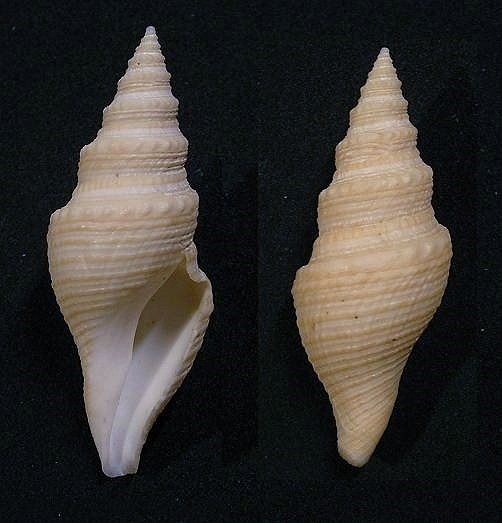 Bathytoma luehdorfi (Lischke, 1872) ; Taiwan